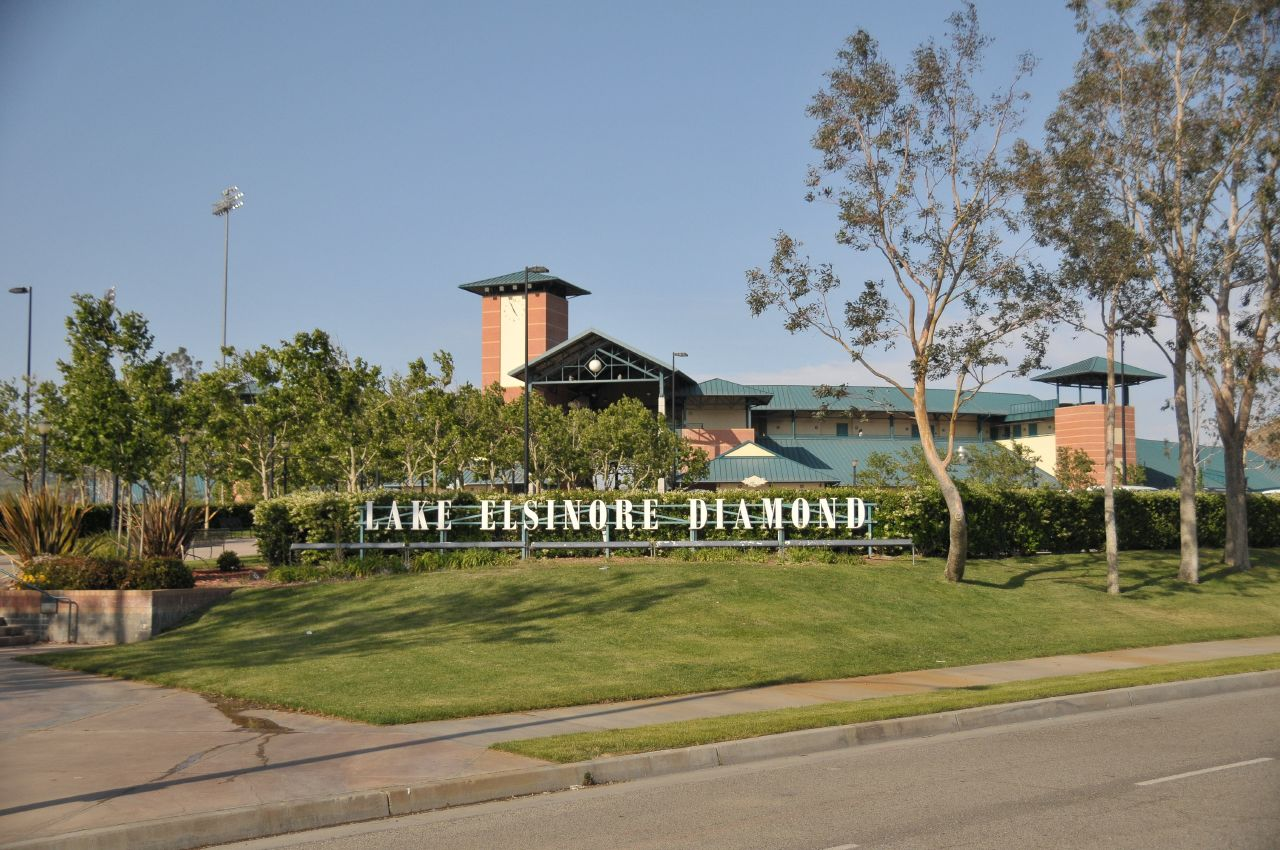 Entrance to the Lake Elsinore Diamond, home to the Lake Elsinore Storm, a minor league baseball team.